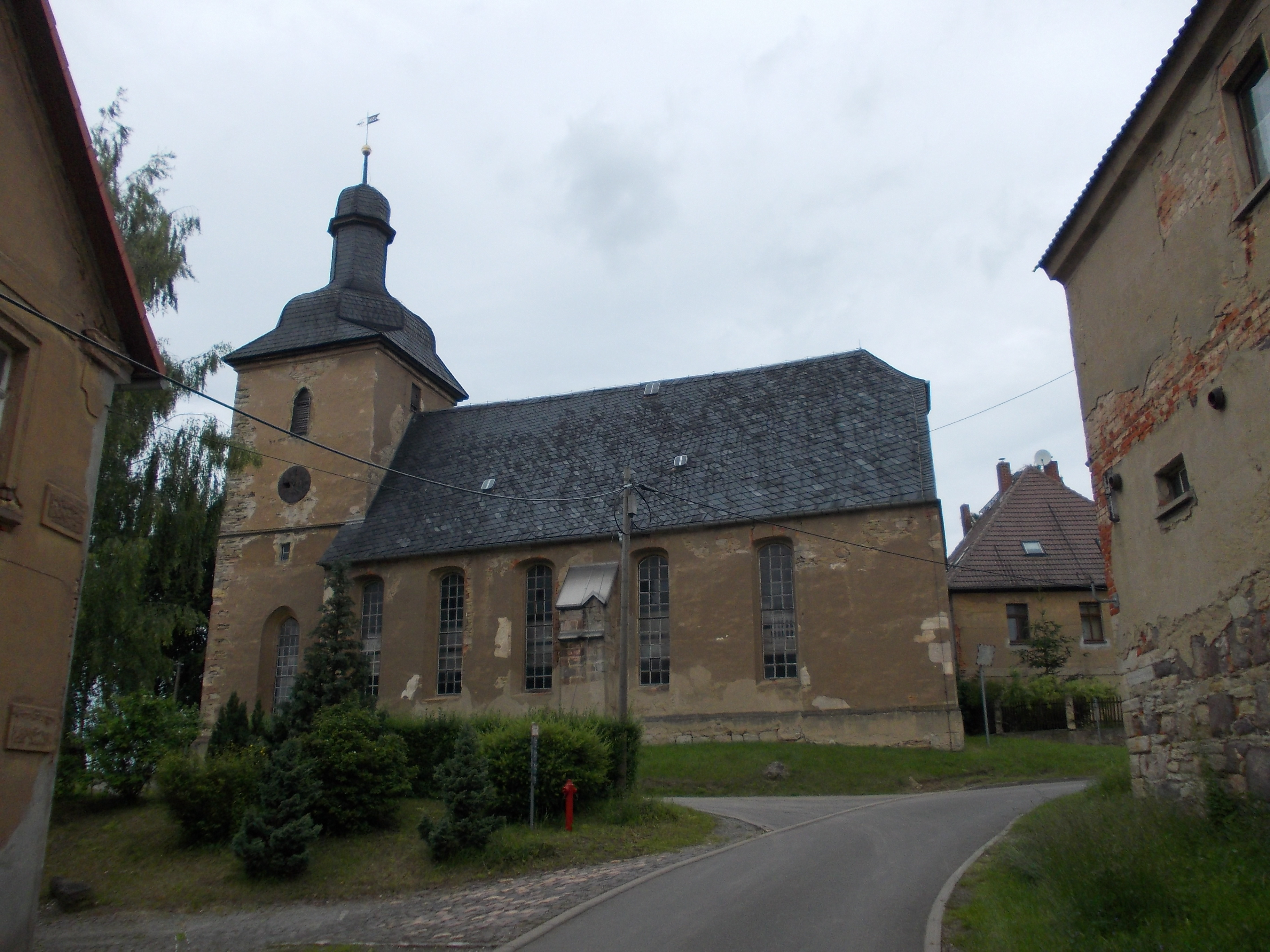 Gödern church (Göhren, district of Altenburger Land, Thuringia)